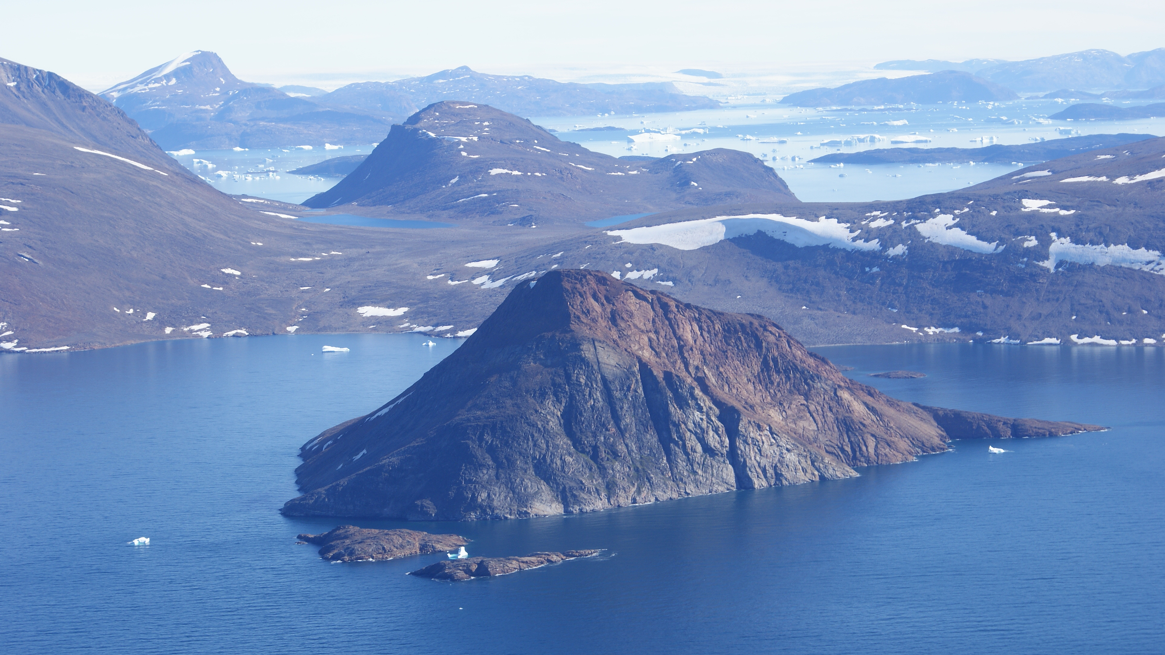 Aerial view of Illoorfik Island and Nuussuaq Peninsula, Inussulik Bay, Upernavik Archipelago, Greenland. Photographed from the Air Greenland Bell 212 during the Kullorsuaq-Nuussuaq flight.